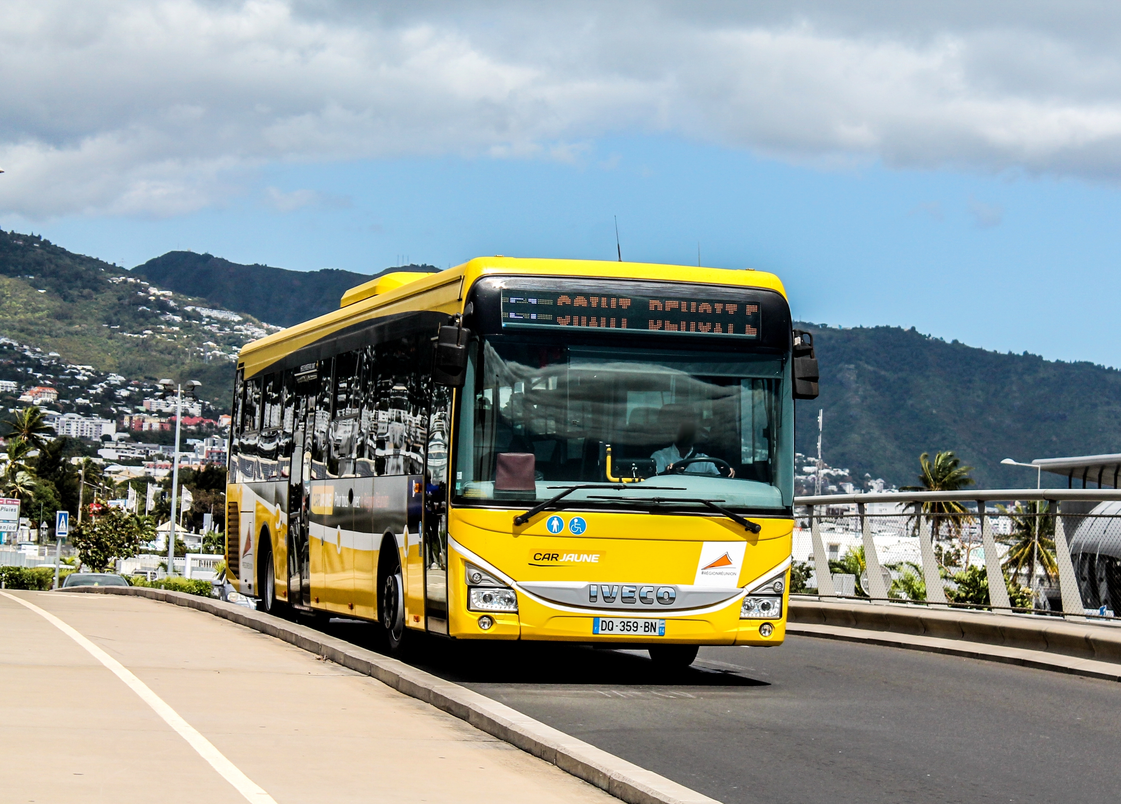 Iveco Crossway LE Car Jaune